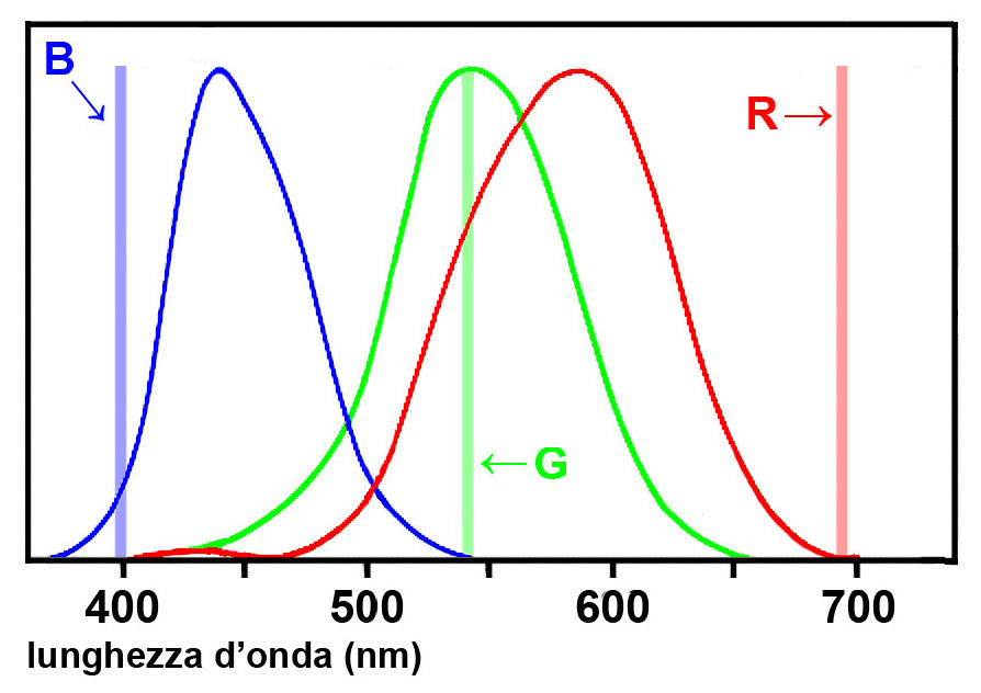 R, G, B: monochromatic primaries for additive color synthesys Curves red, green and blue: spectral sensitivity curves of the three types of human photoreceptors responsible for color vision